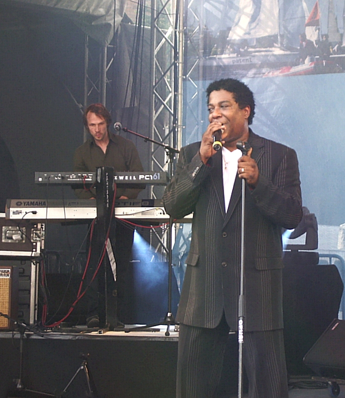 Retouched version of Datei:Sydney Youngblood.jpg, which has the following description